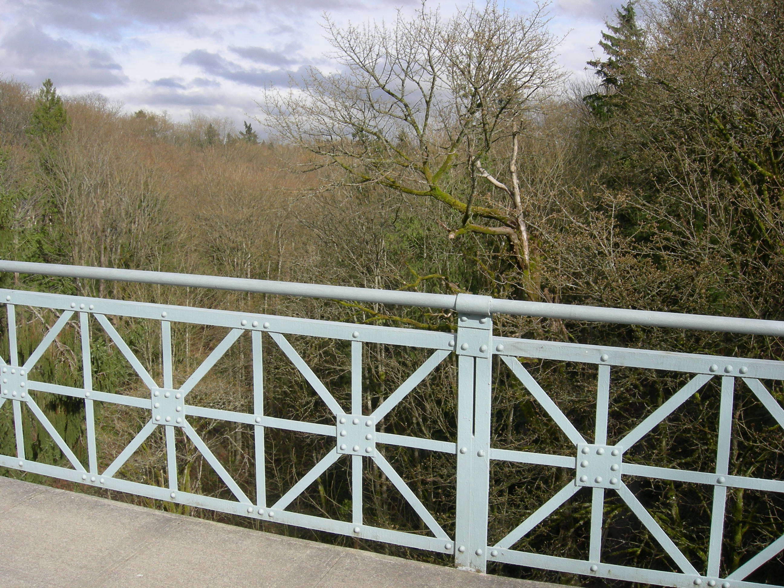 Ravenna Park, Seattle, Washington. Looking out from 20th Ave pedestrian/bicycle bridge. The bridge is on the National Register of Historic Places.